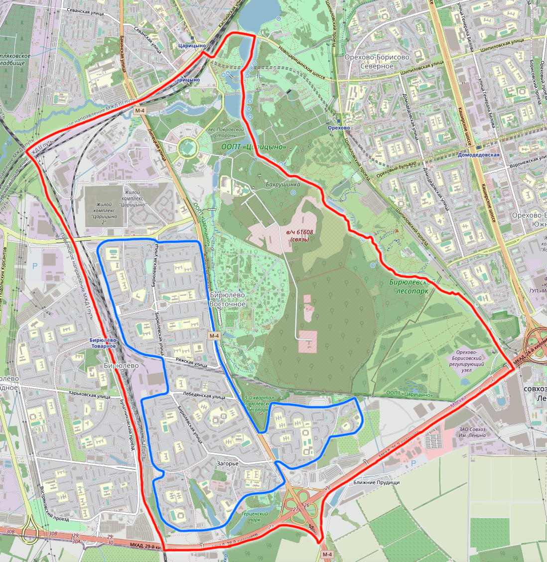 The map of Biryulyovo East